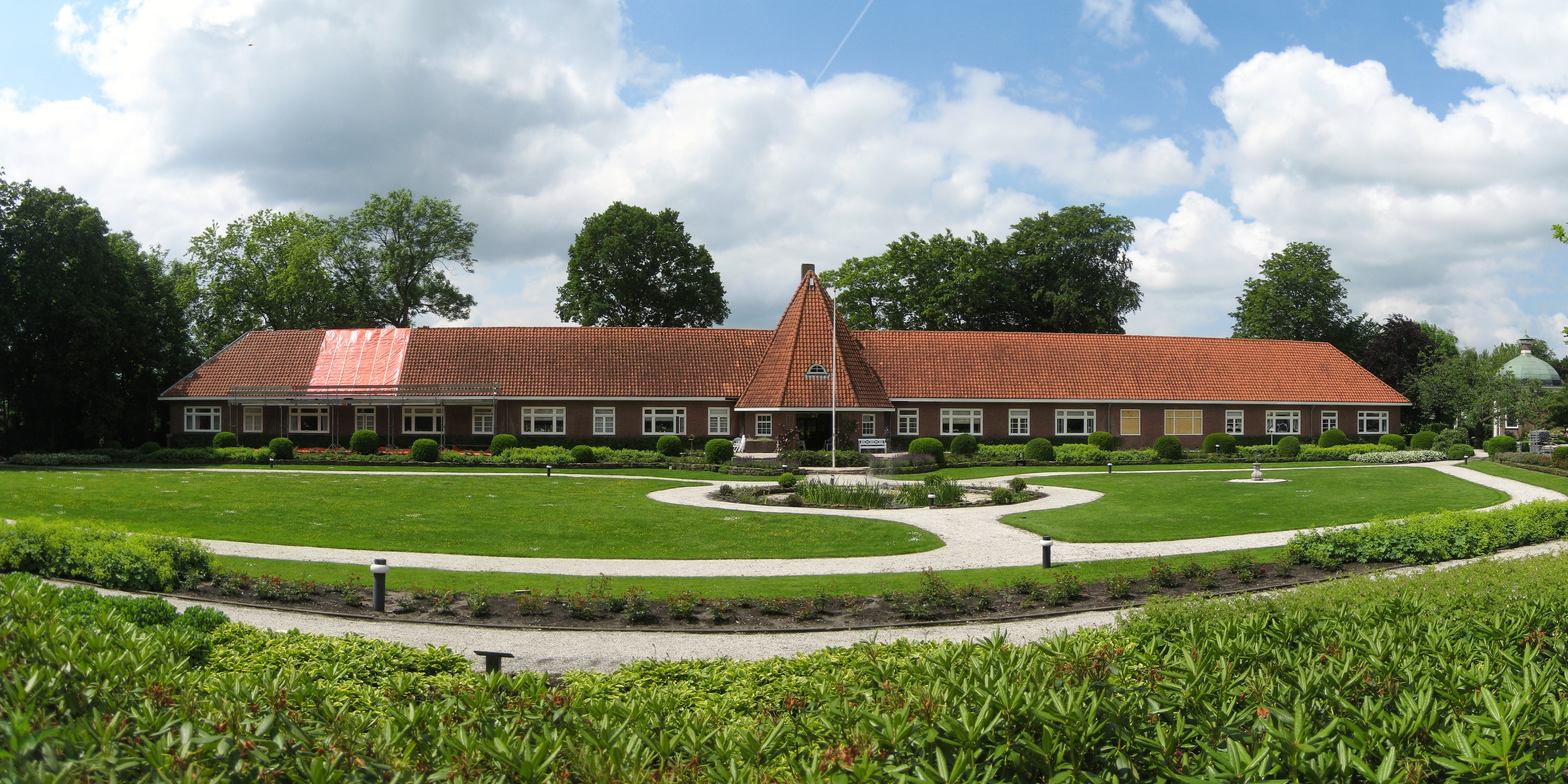 Welgelegen, a housing complex for the elderly (b. 1927-1929) in Akkrum, a village in the Dutch province of Fryslân.